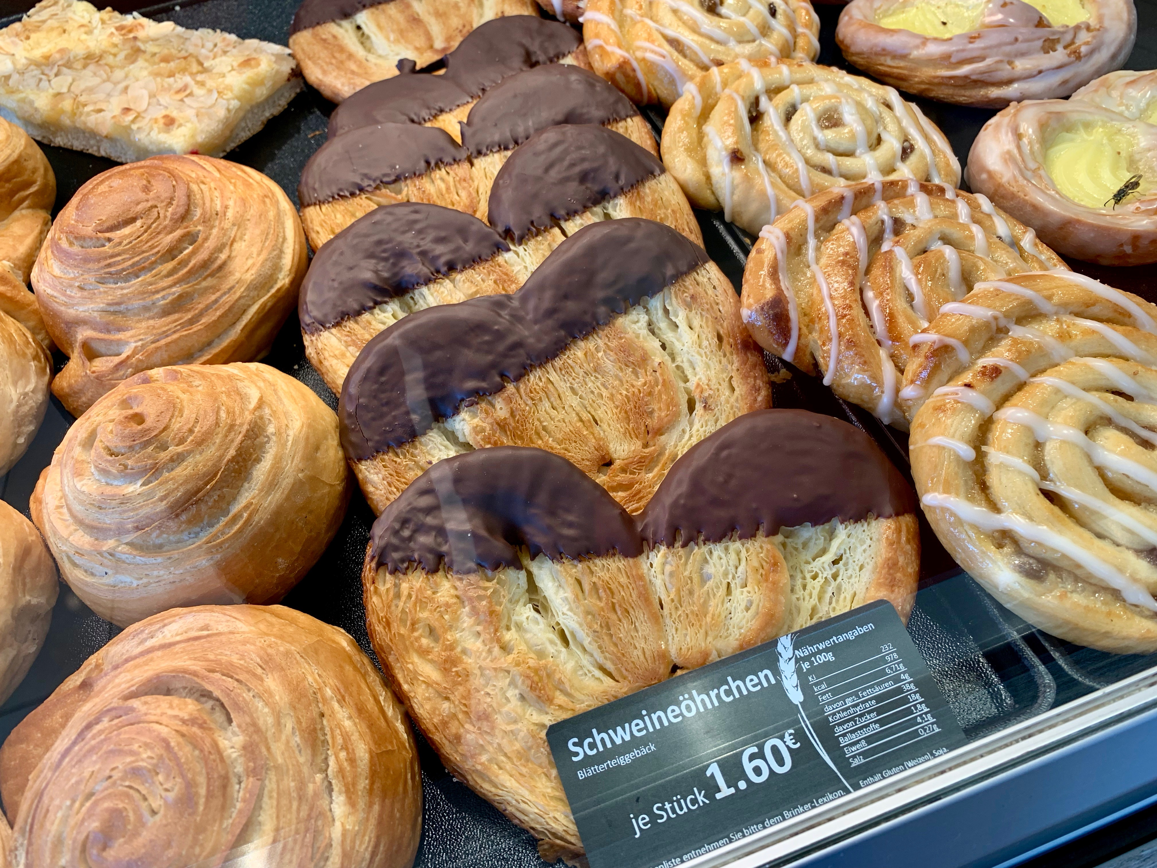 Typical Western German "Pig's Ears" in City of Bochum in German bakery. They are much lager than the French type and are nearly always covered half in couverture chocolate coating. Note the sign that states that energy content is (supposedly?) 978 kcal/100g.